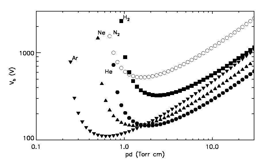 Paschen curves obtained for Helium, Neon, Argon, Hydrogen and Nitrogen, using the expression for the beakdown voltage as a function of the parameters A,B that interpolate the first Townsend coefficient. Data taken from Lieberman and Lichtenberg, Principles of Plasma Discharges, Wiley 2005.